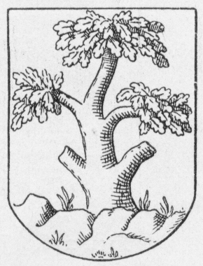 Coat of arms of Hindsted Herred (Hundred), a former administrative subdivision of Denmark, 1648 version. Illustration from the article Om danske By- og Herredsvaaben written by Anders Thiset and published in Tidsskrift for Kunstindustri 1893-1894.